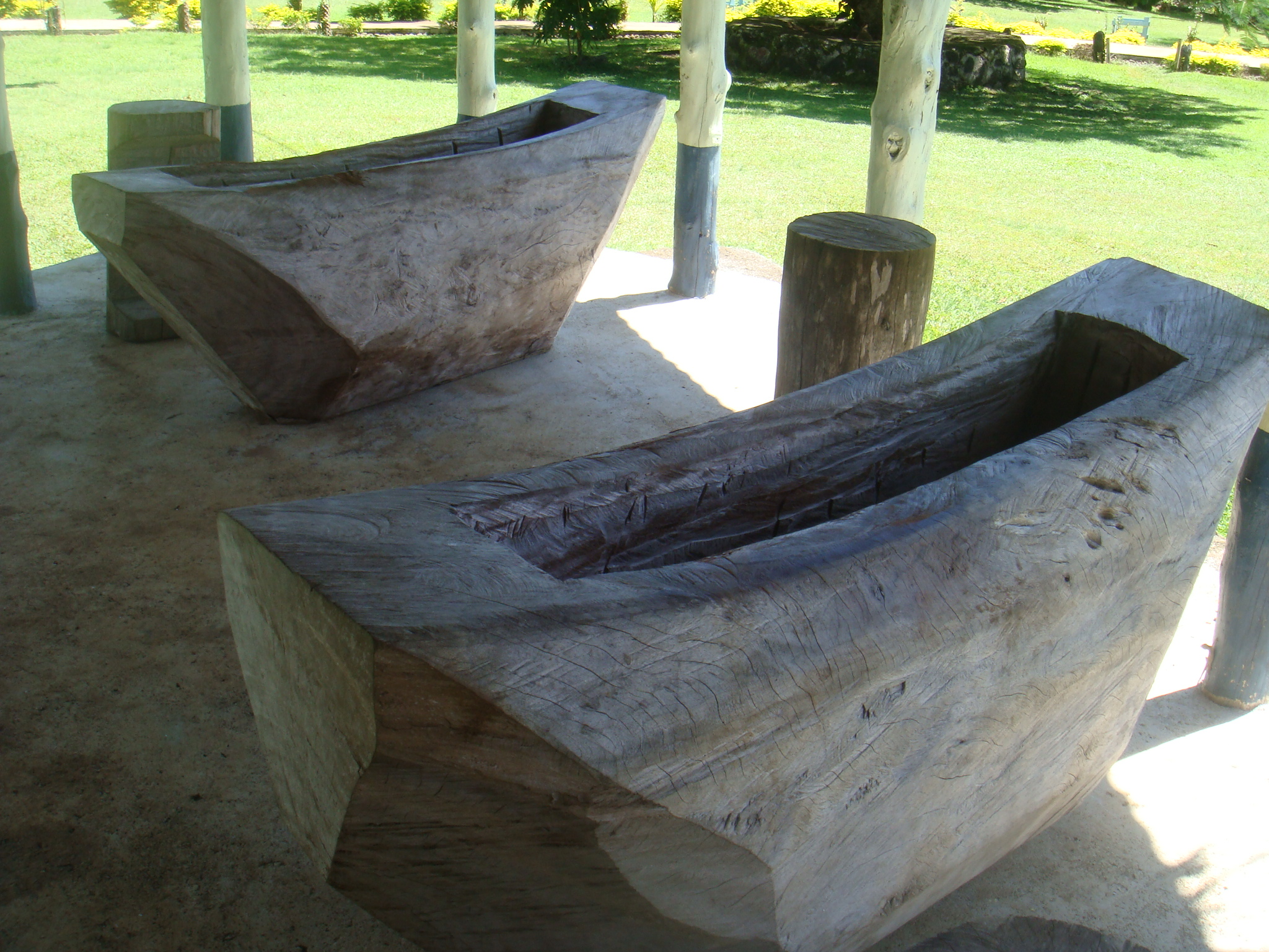 Samoan wooden log drums called lali at Piula Theological College, Samoa. Gagana Samoa: Lali i le aoga Metotisi i Piula.